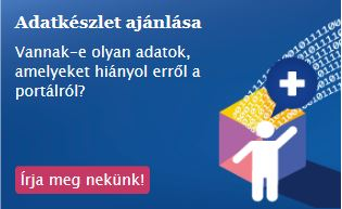 Screenshot from EUODP